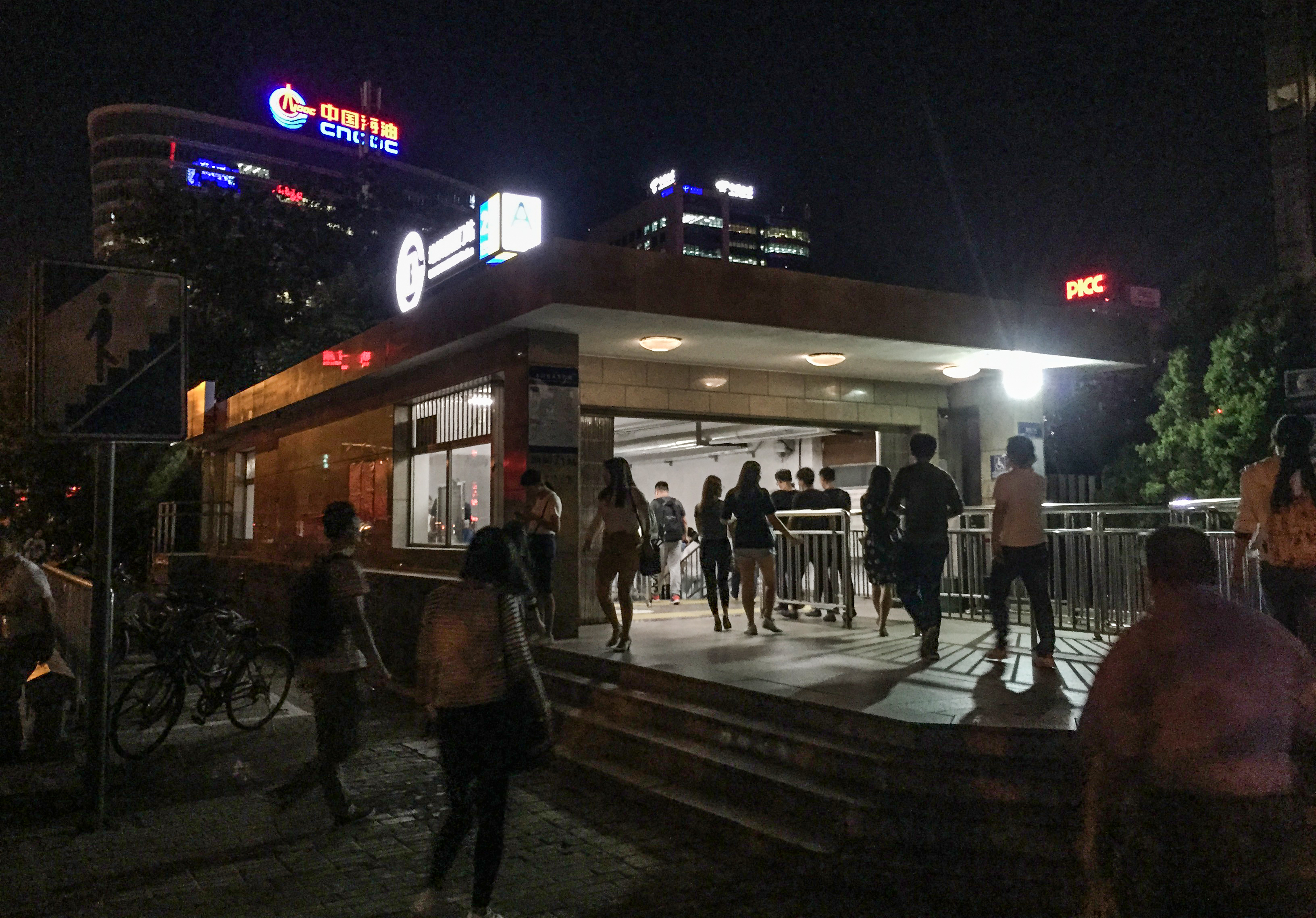 New sign installed.